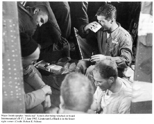 Major Smith samples "medicinal" Scotch after being winched on board Intermountain's B-17, 2 June 1962. Lieutenant LeShack is in the lower right corner.